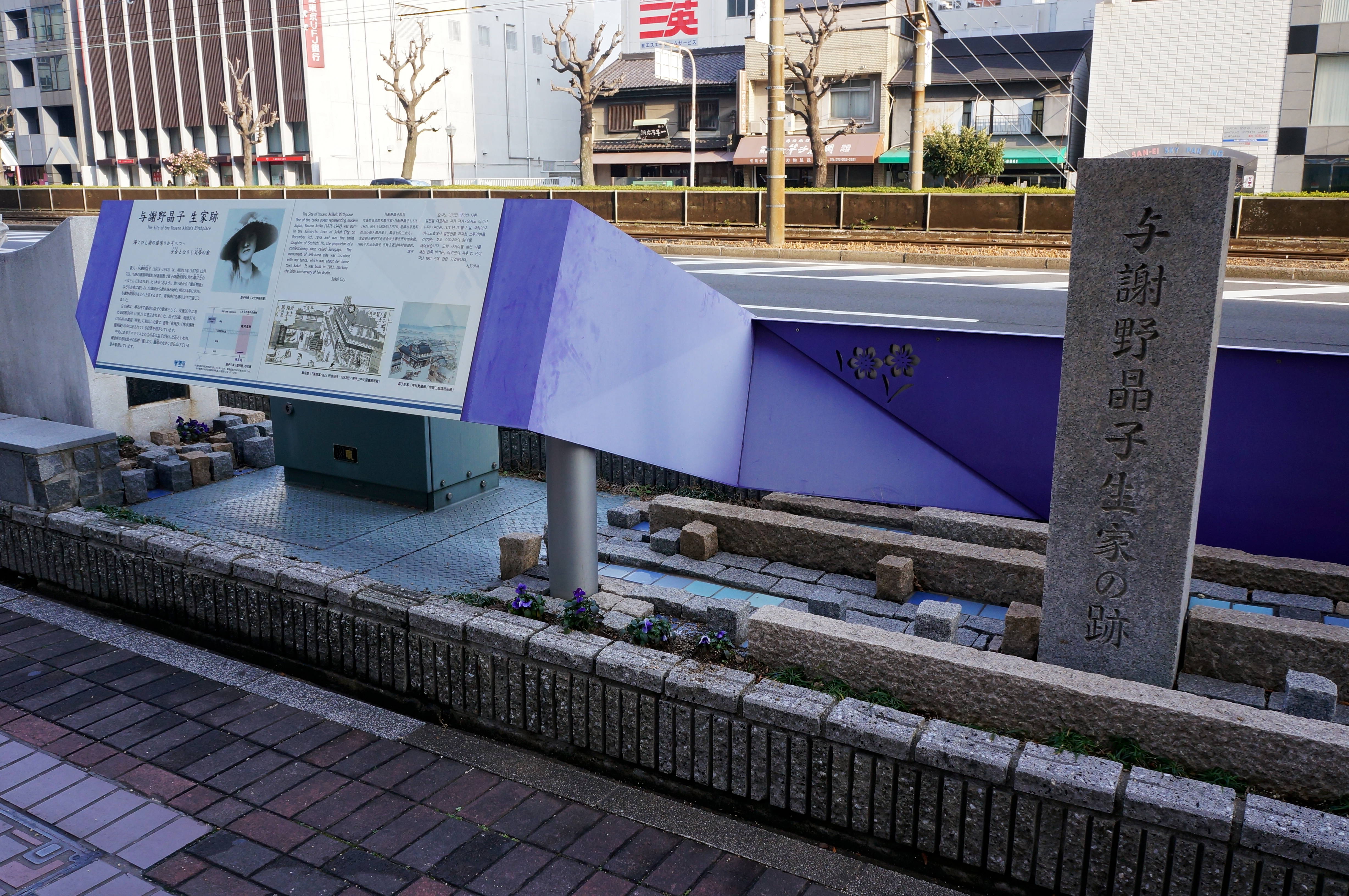 The Site of Akiko Yosano's Birthplace in Sakai, Osaka prefecture, Japan.